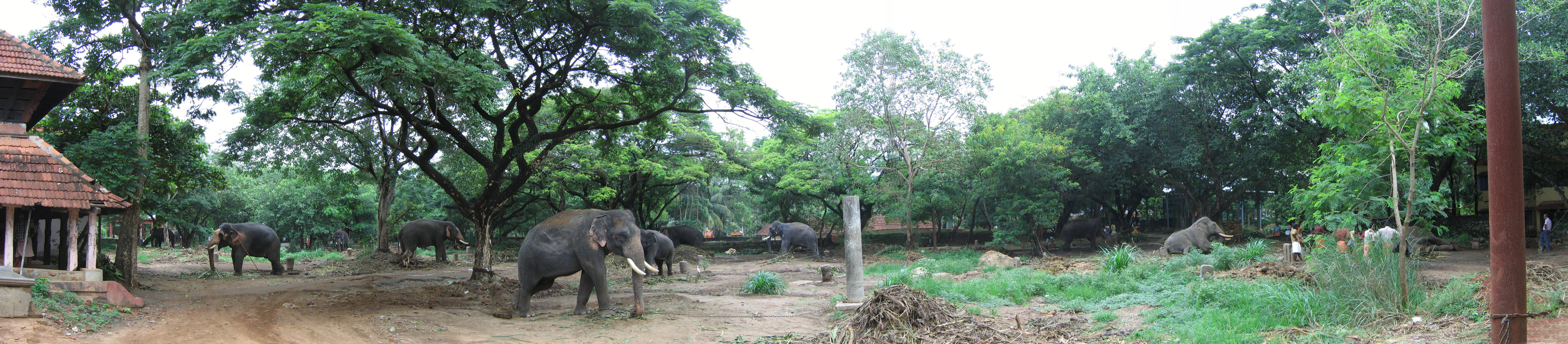 Elephants at punnathoor kotta Guruvayur